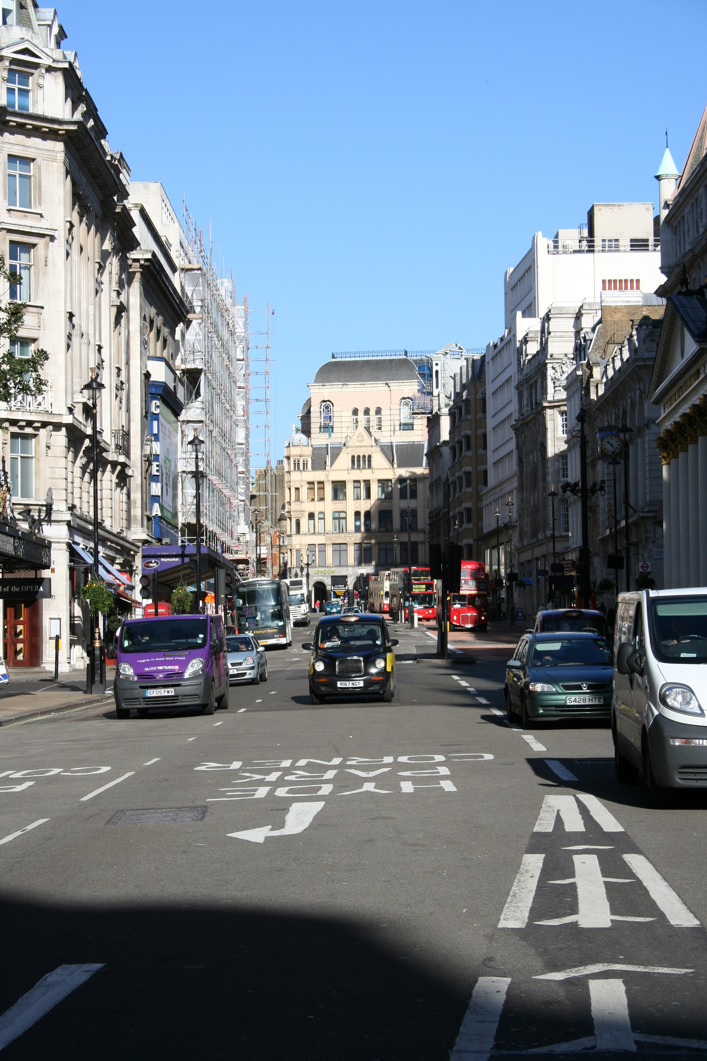 A view of the Haymarket in London